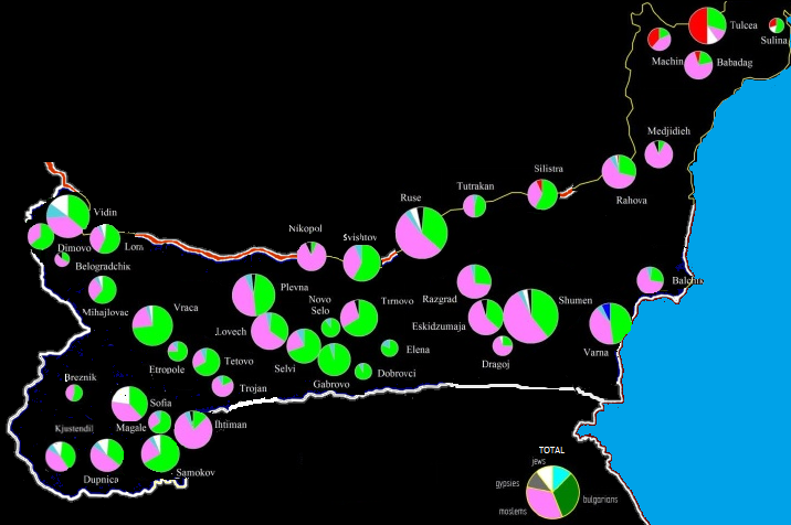 Makeup of the population of the towns of the Danube vilayet excluding Niş sancak ın 1876. 18% of the population of the province lived in urban areas in 1873.